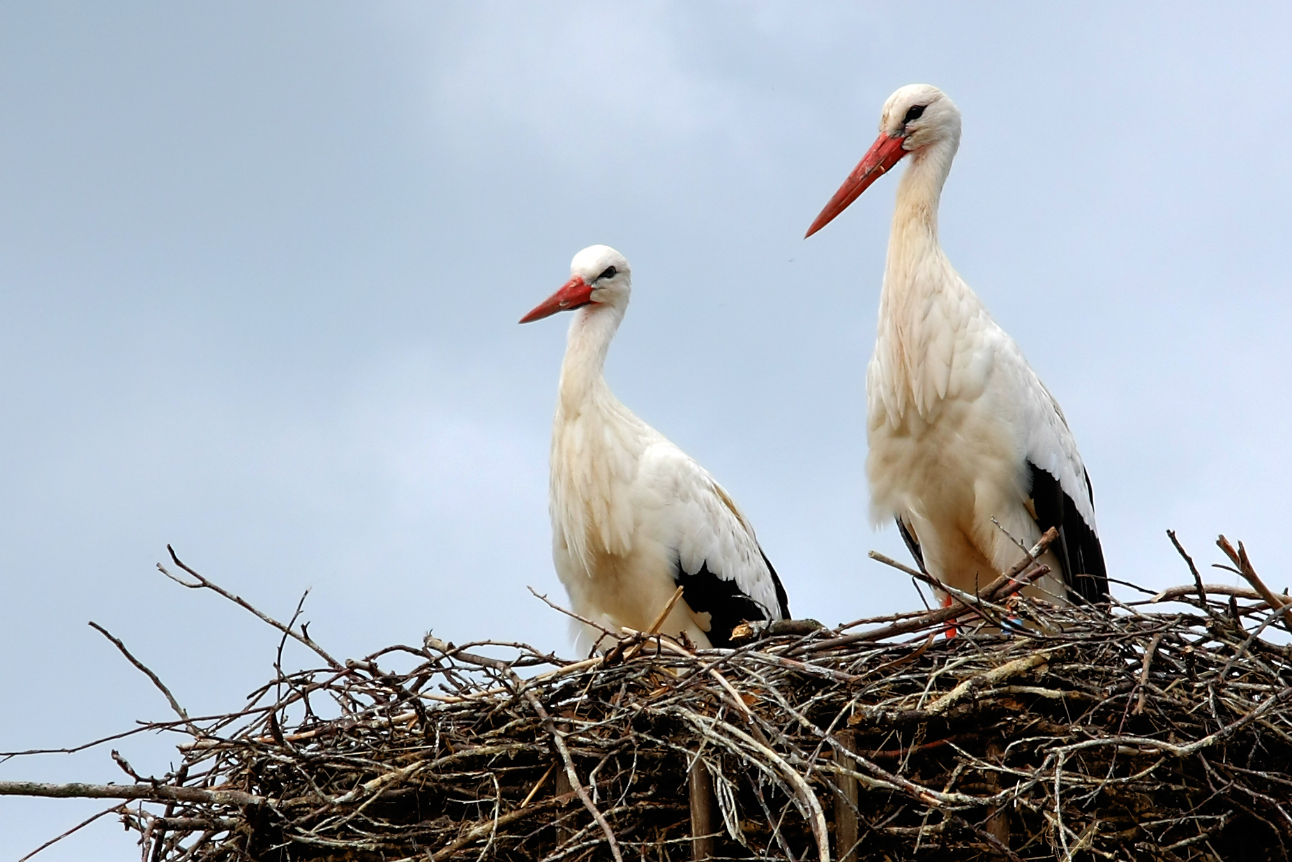 White storks at a zoo in southern Sweden, Skånes djurpark.